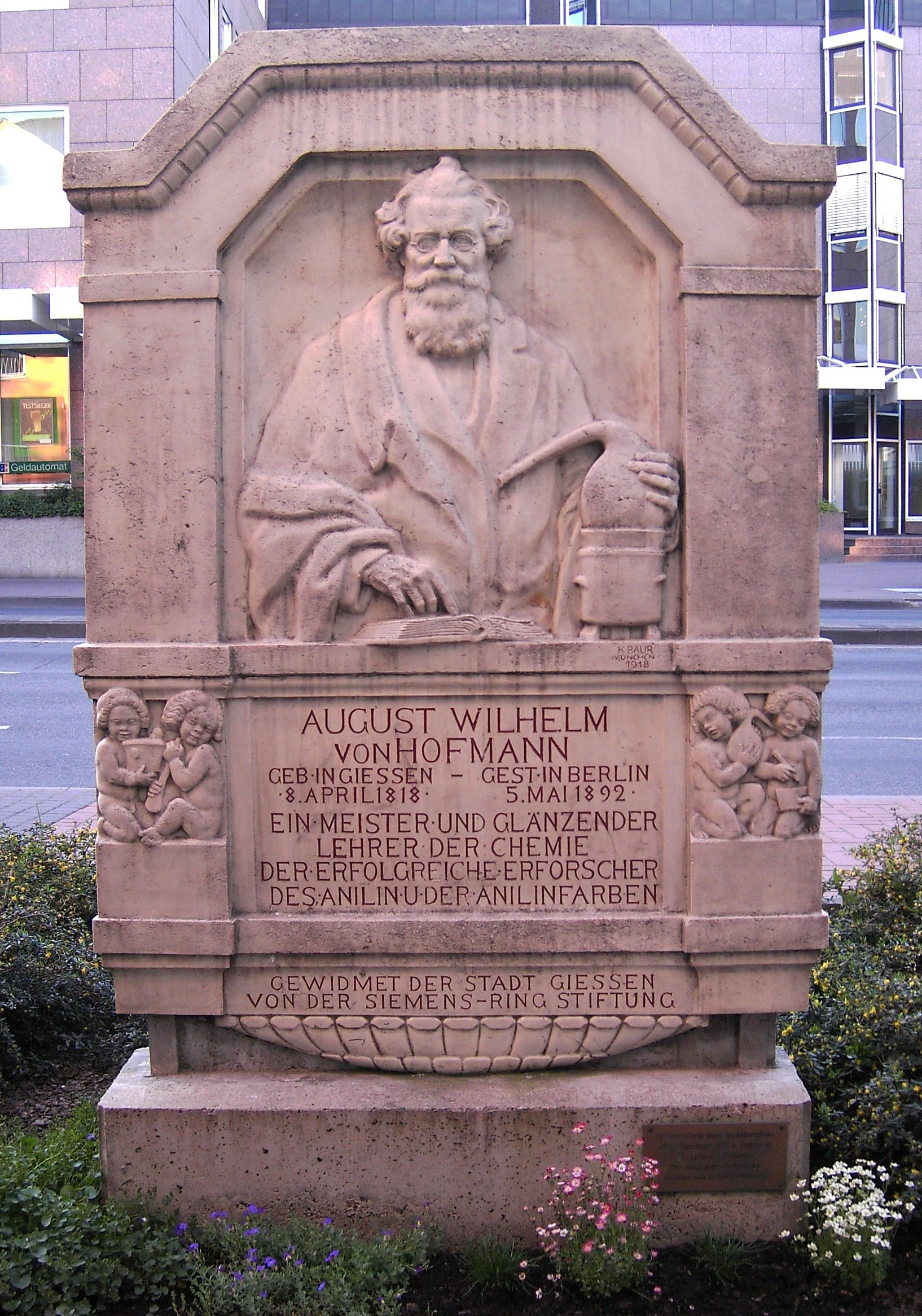 Monument to August Wilhelm von Hofmann in Gießen, at the site of his birth house. This monument was created by sculptor Karl Baur from Munich in 1918, as can be seen in the inscription.